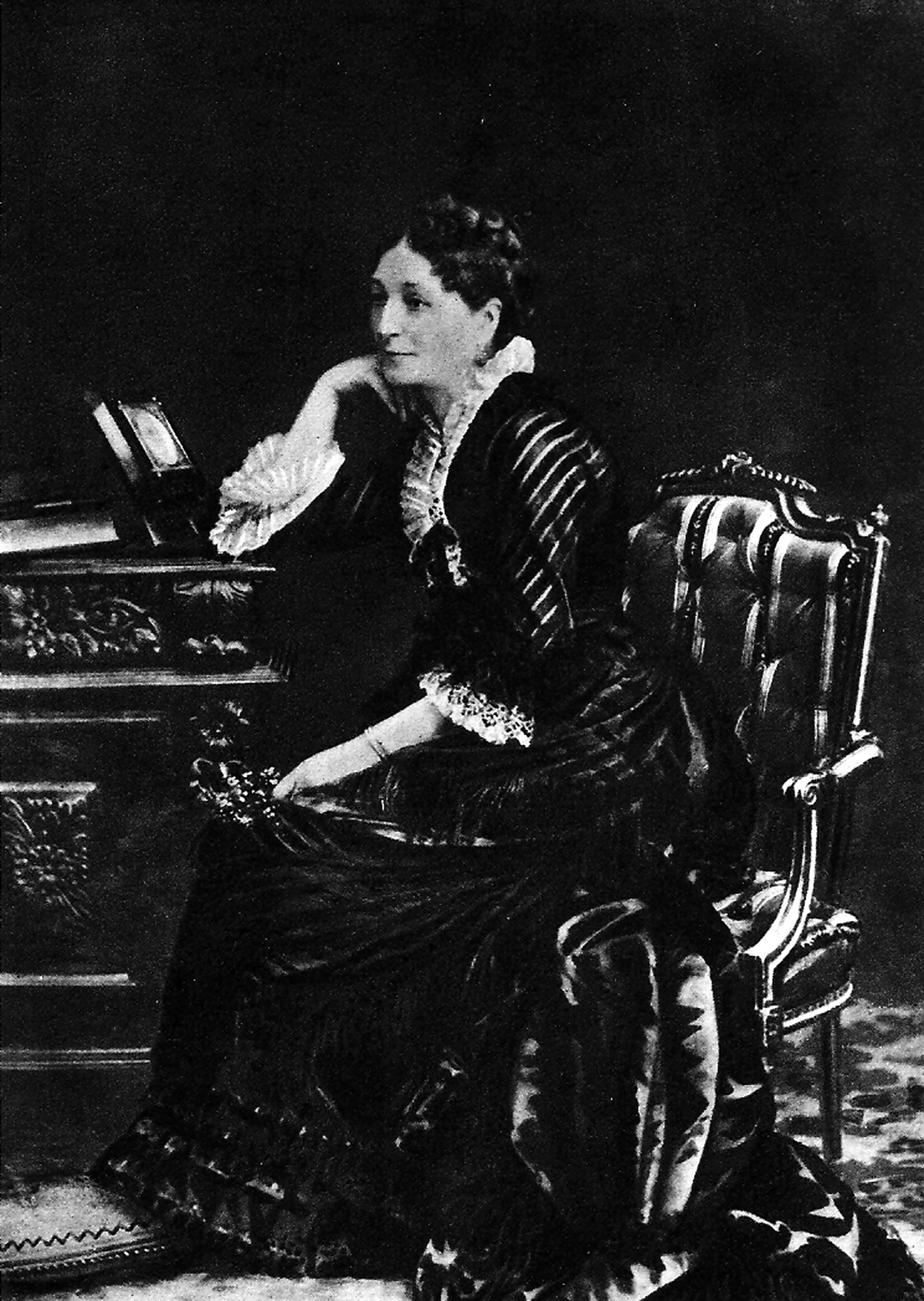 Jane Loftus, Marchioness of Ely, lady-in-waiting to Queen Victoria